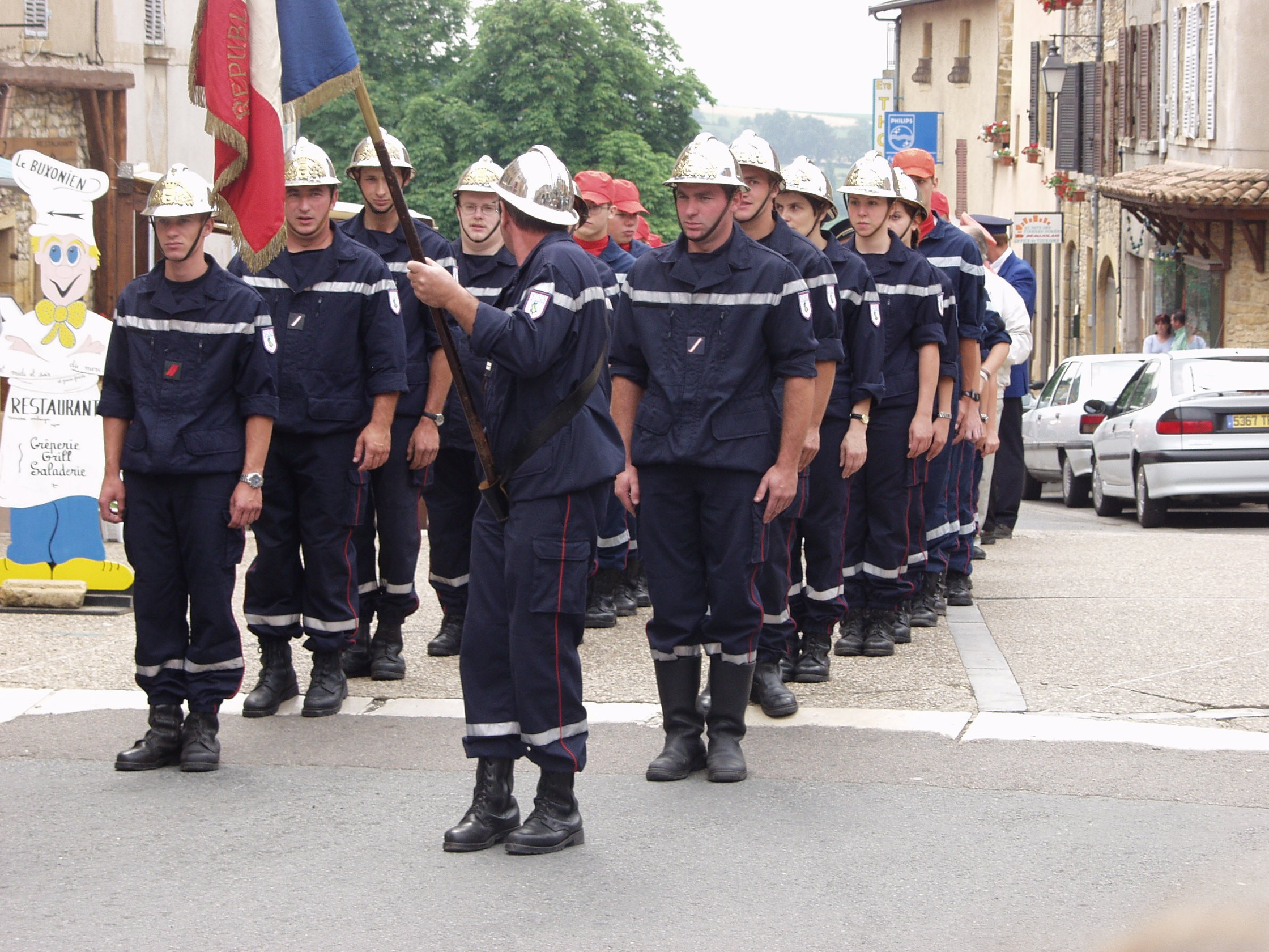 Fire brigade marching on 14 July 2008 in Bois d'Oingt, France